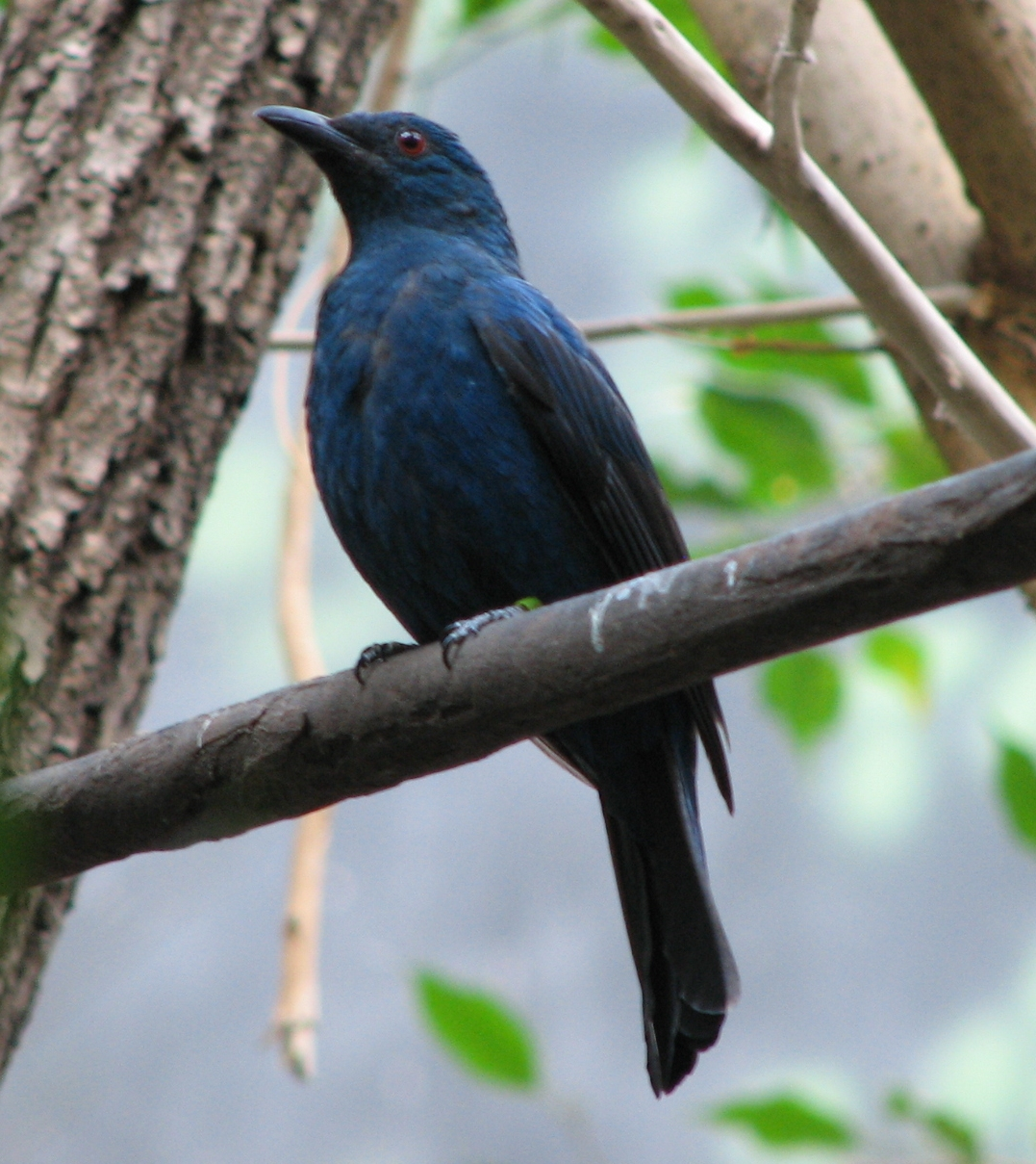 Asian Fairy Bluebird Female - Irena puella